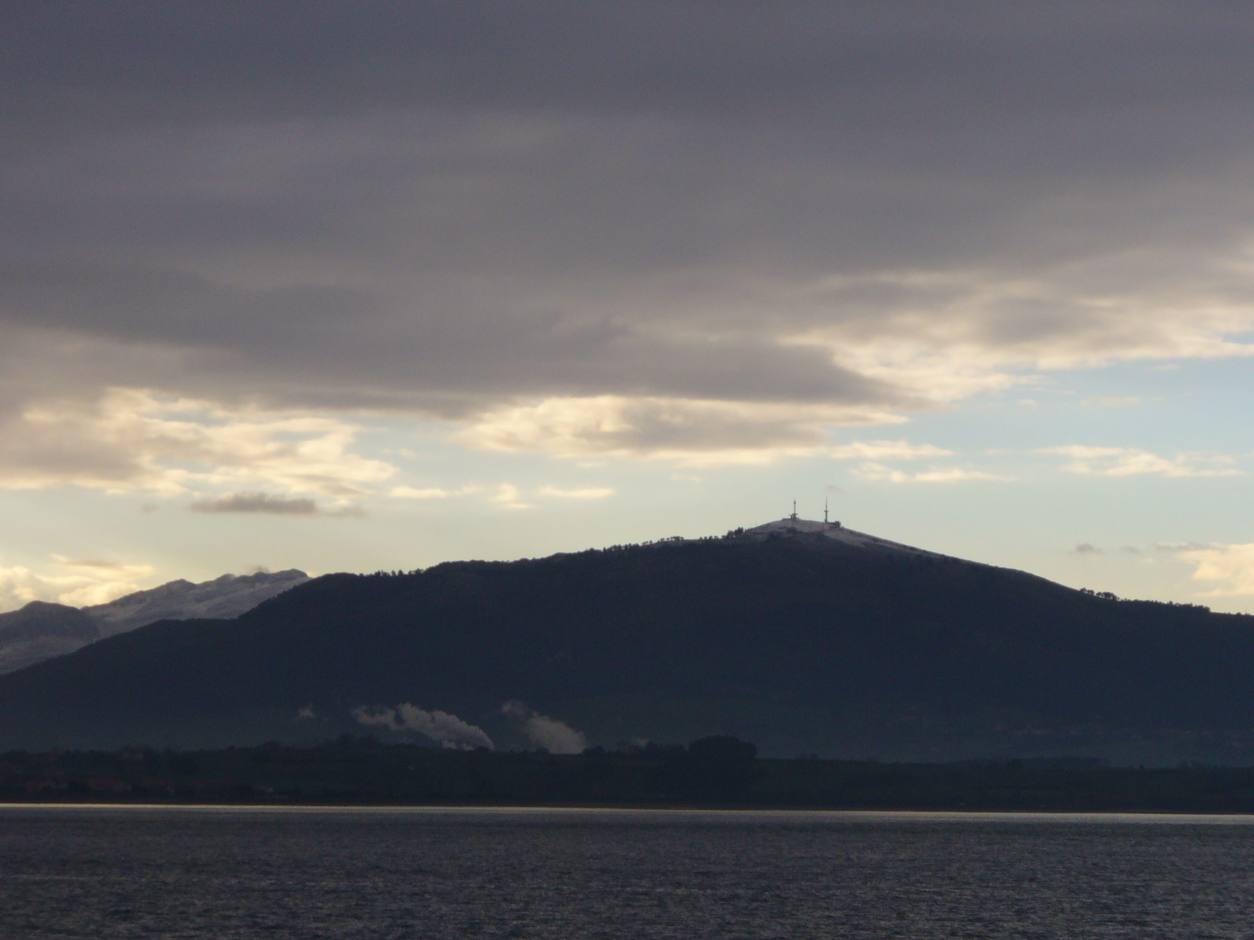 Peña Cabarga from Santander, Cantabria, Spain